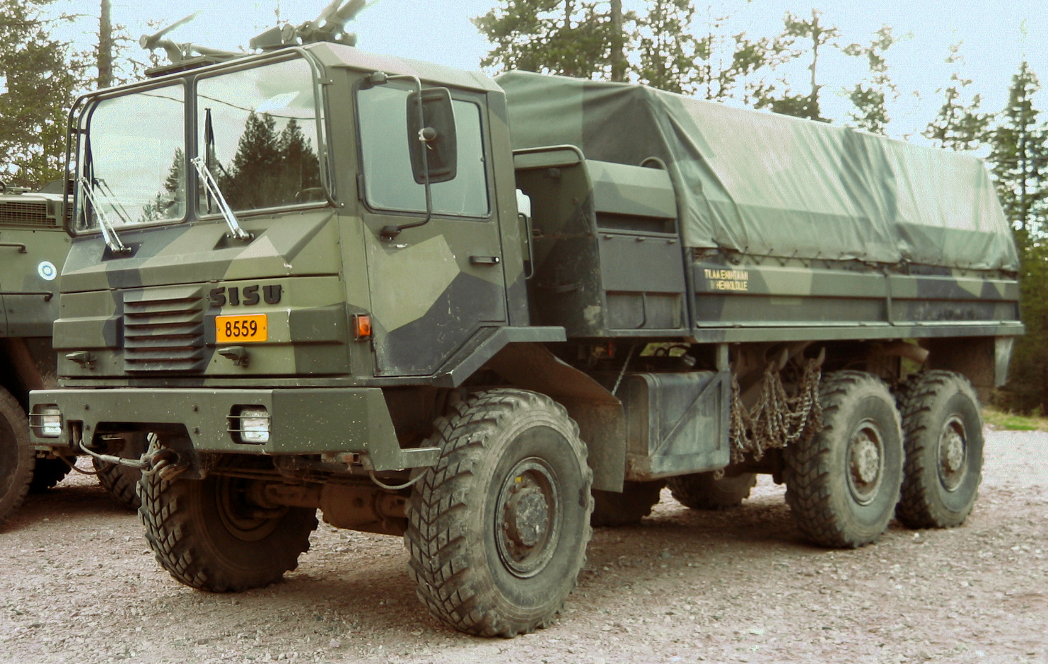 Raskas Sisu (Rasi) in Sarriojärvi in May 2009.